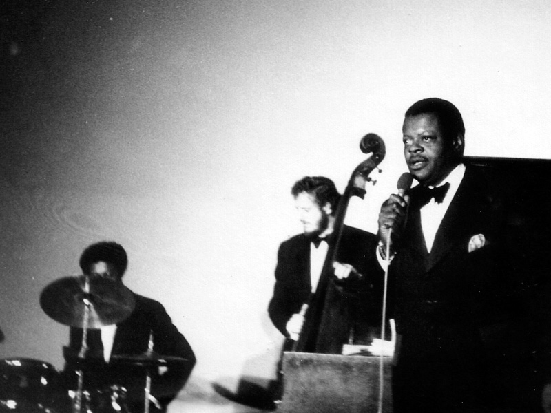 The Oscar Peterson Trio (Oscar Peterson, Niels-Henning Ørsted Pedersen, Louis Hayes) during a concert in Aachen (Germany) on October 17th 1971